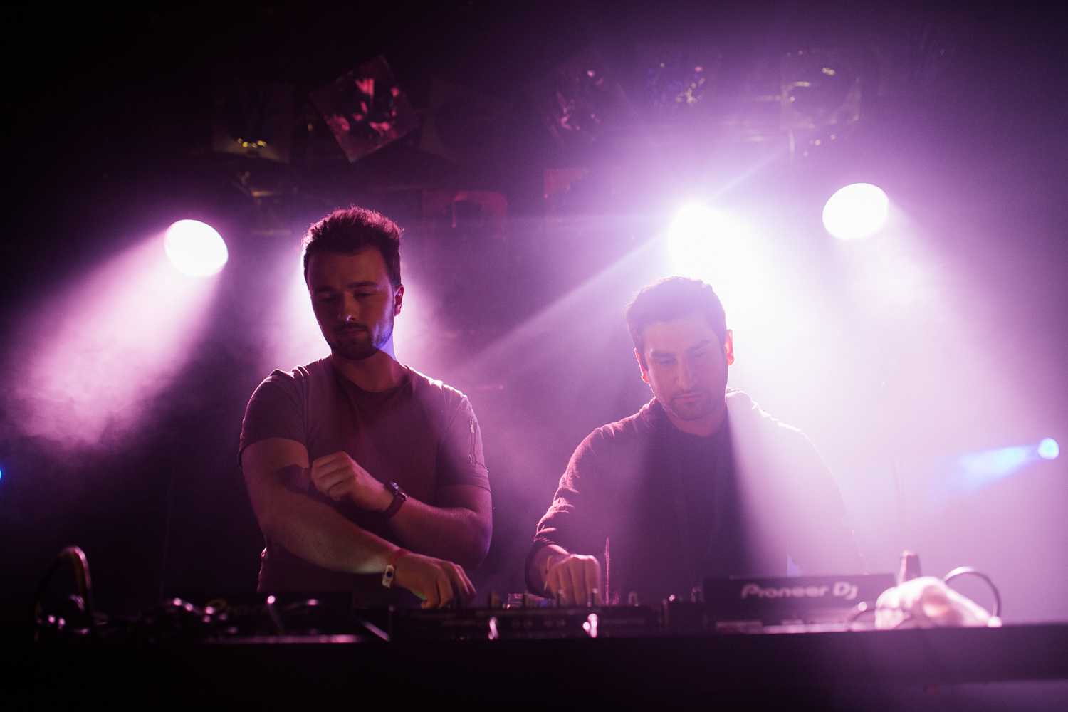 TRXD performing at by:Larm 2017